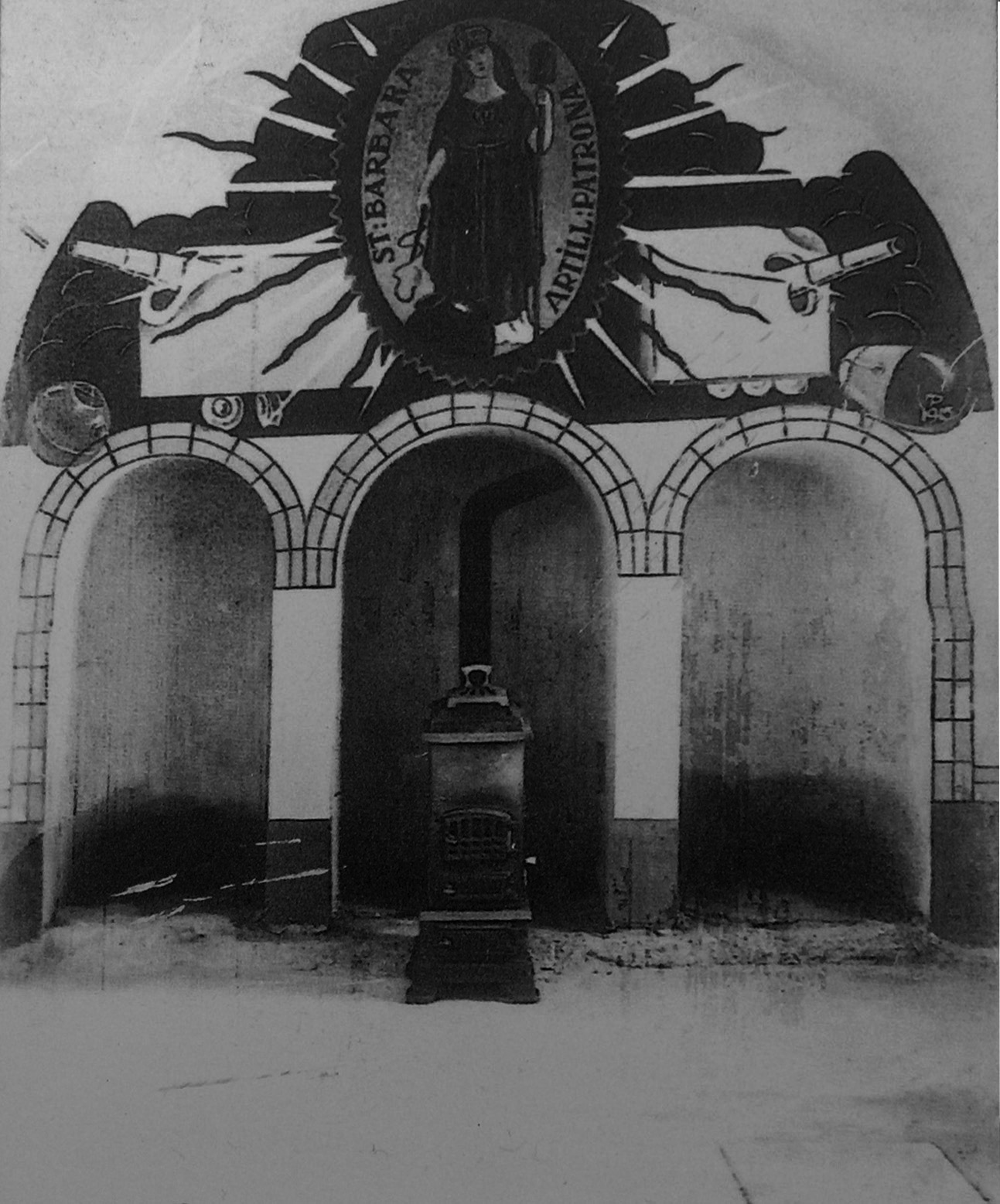 Saint Barbara, surrounded by cannons of the Hindenburg battery; painting by Heinrich-Otto Pieper (WWI), Fort Napoleon, Oostende, Belgium